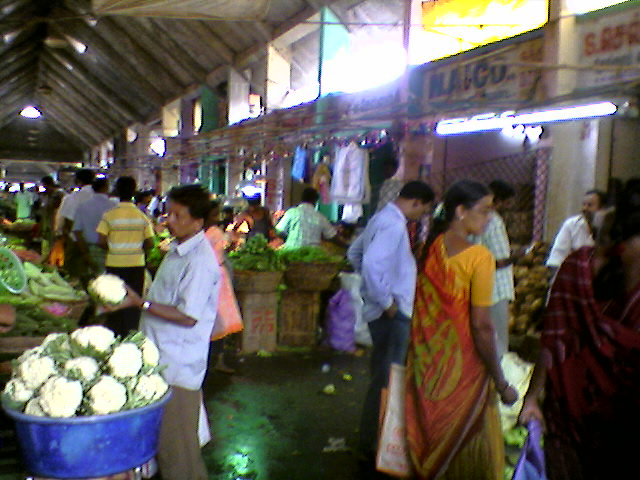 A view of the Koyambedu Market, Chennai, India - it is just a view of a small part of the Market.